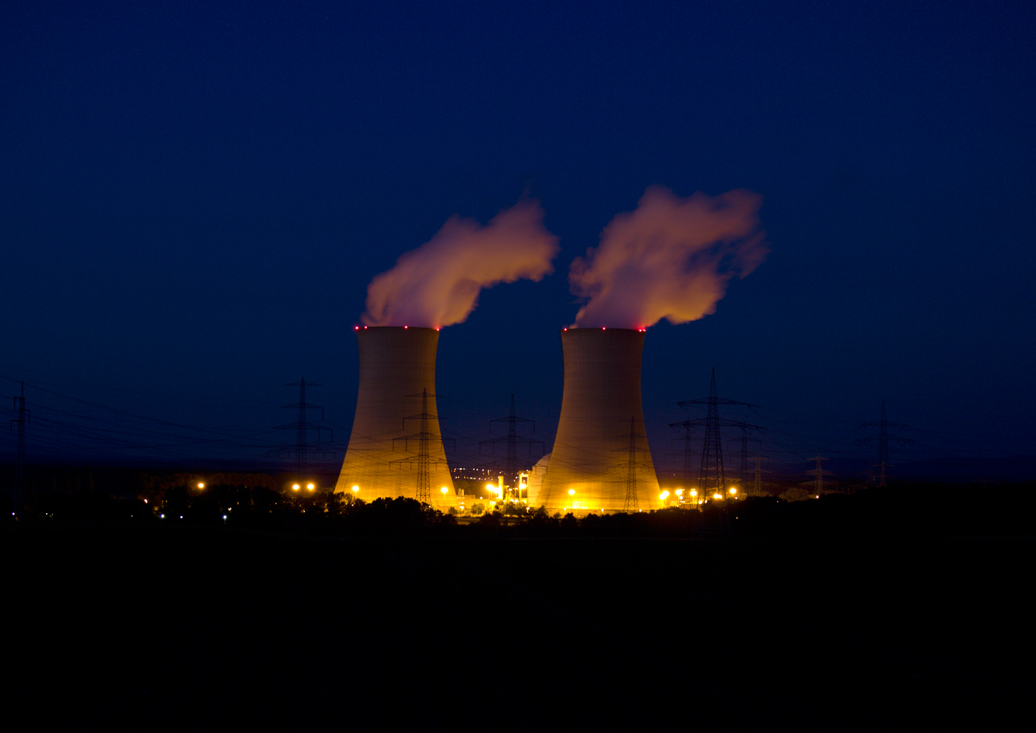 Grafenrheinfeld NPP at night